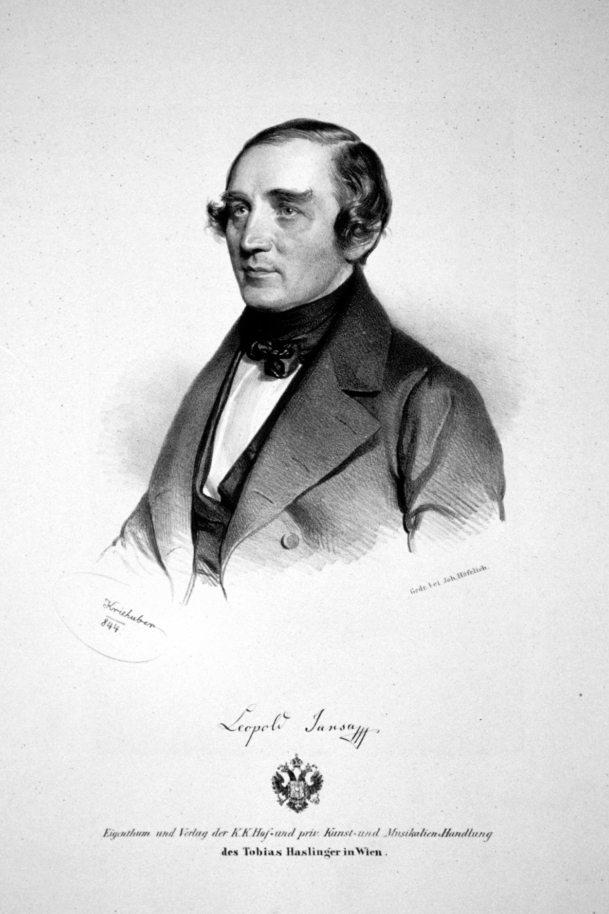 Austrian violinist Leopold Jansa (1795 - 1875)